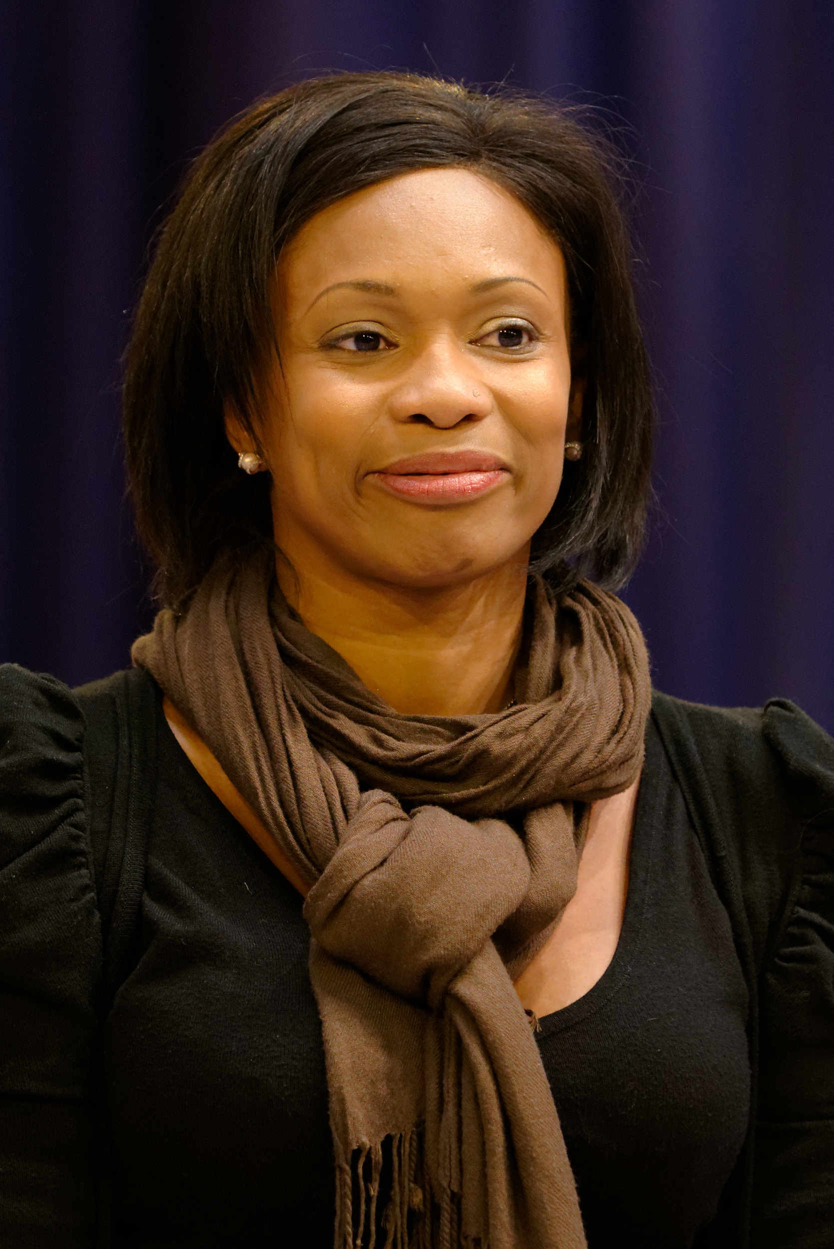 Laura Flessel-Colovic at the teams trophy presentation–Challenge international de Saint-Maur 2013, women's épée World Cup tournament.